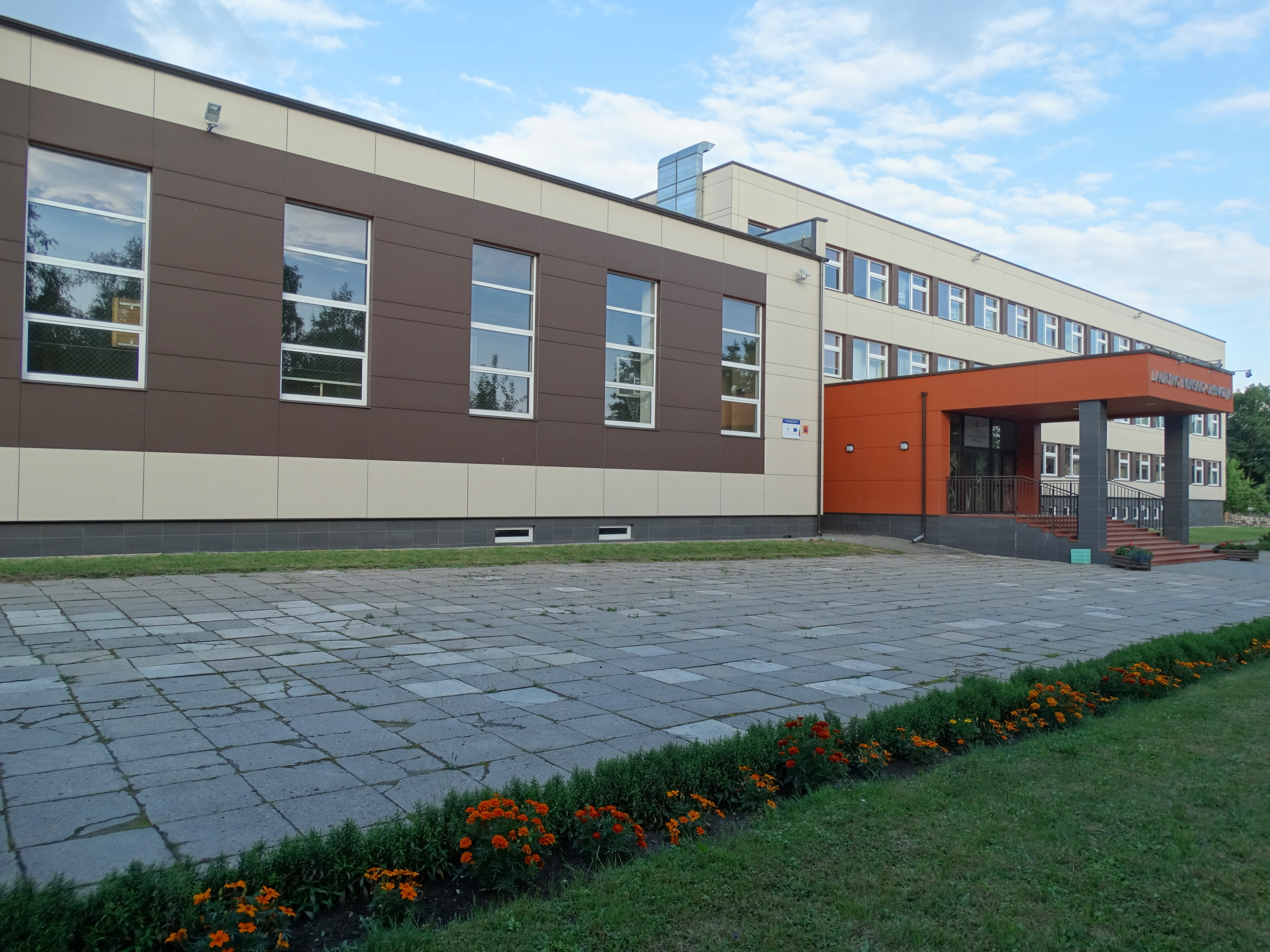 L. Ivinskis Gymnasium, Kuršėnai, Lithuania